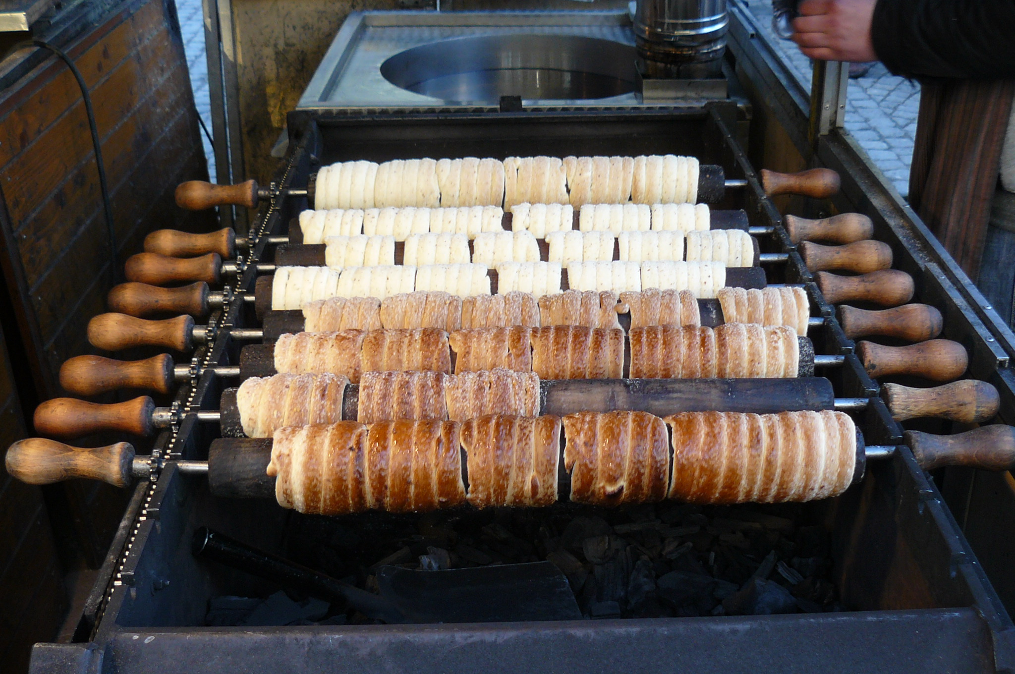 Trdelnik in Praha.